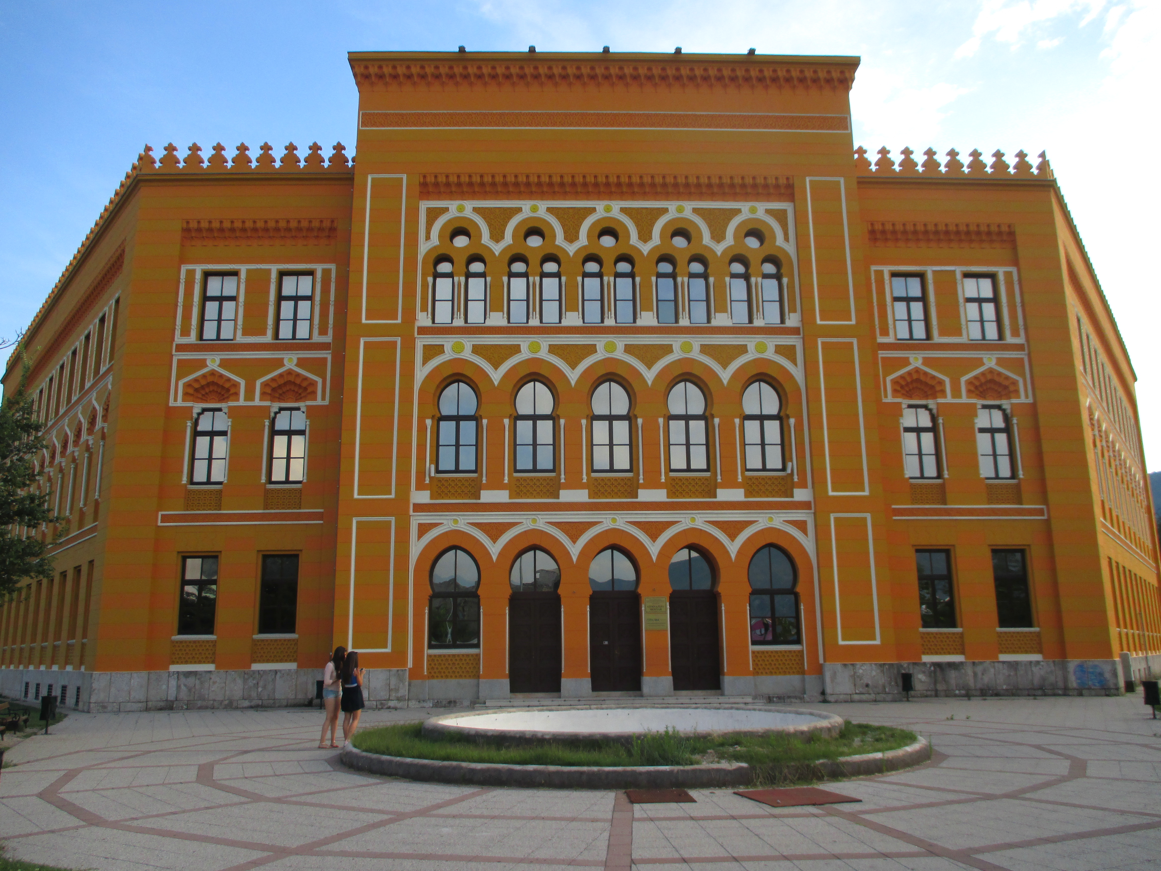 Gimnazija Mostar